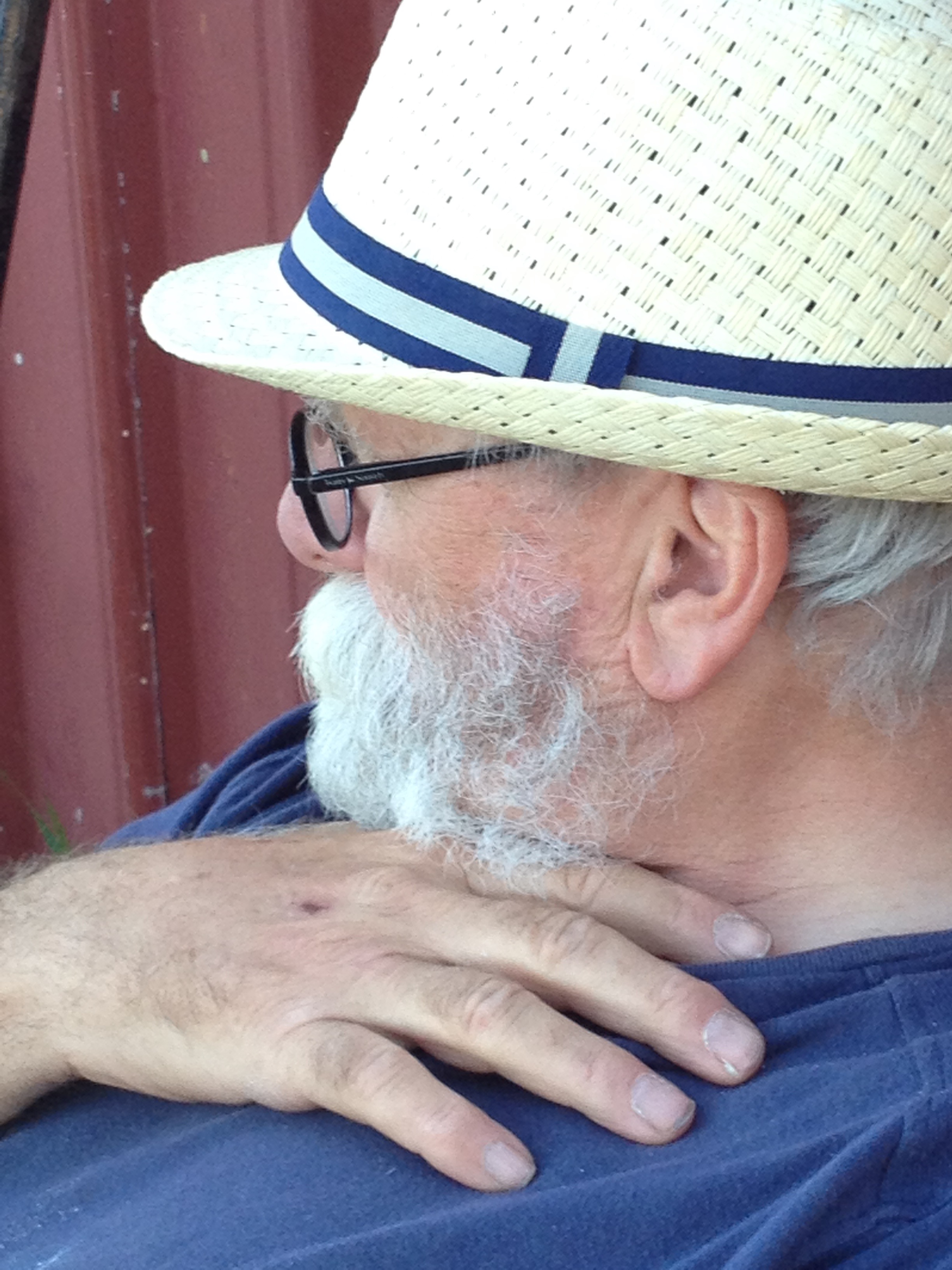 Roger Michell, British Studio Potter, outside his studio in The Algarve, Portugal